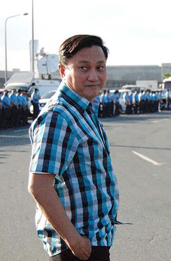 Portrait of Francis Tolentino